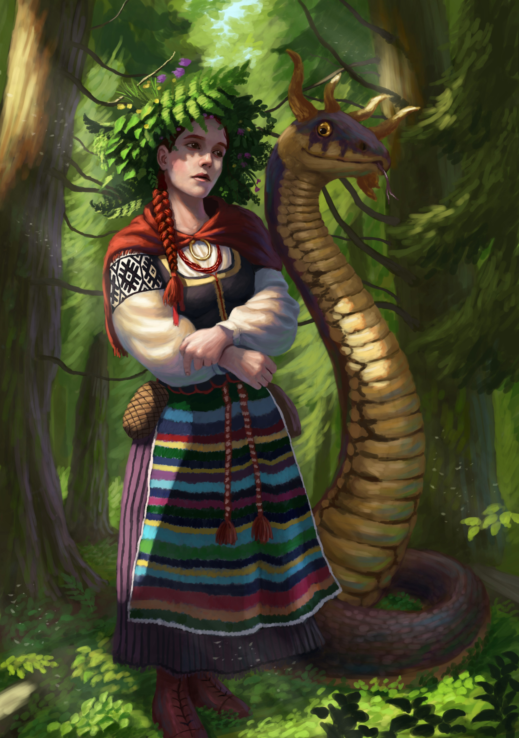 The Belarusian legend